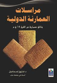 Farouk Ismail Book